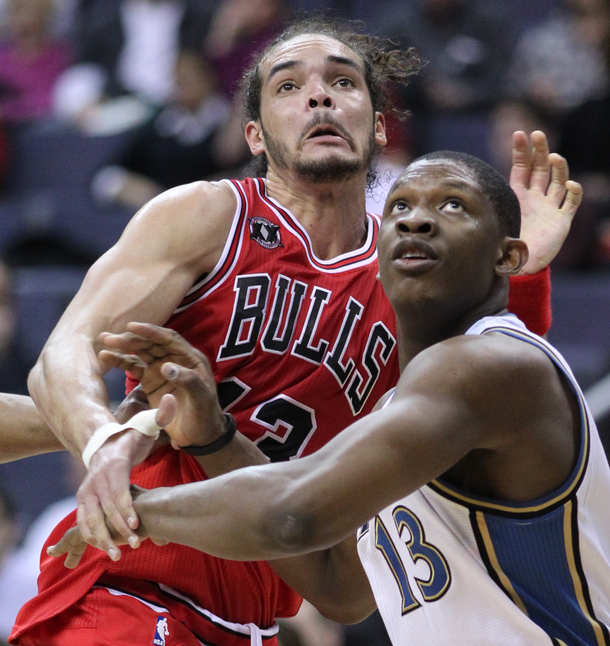 Joakim Noah and Kevin Seraphin at Wizards v/s Bulls 02/28/11